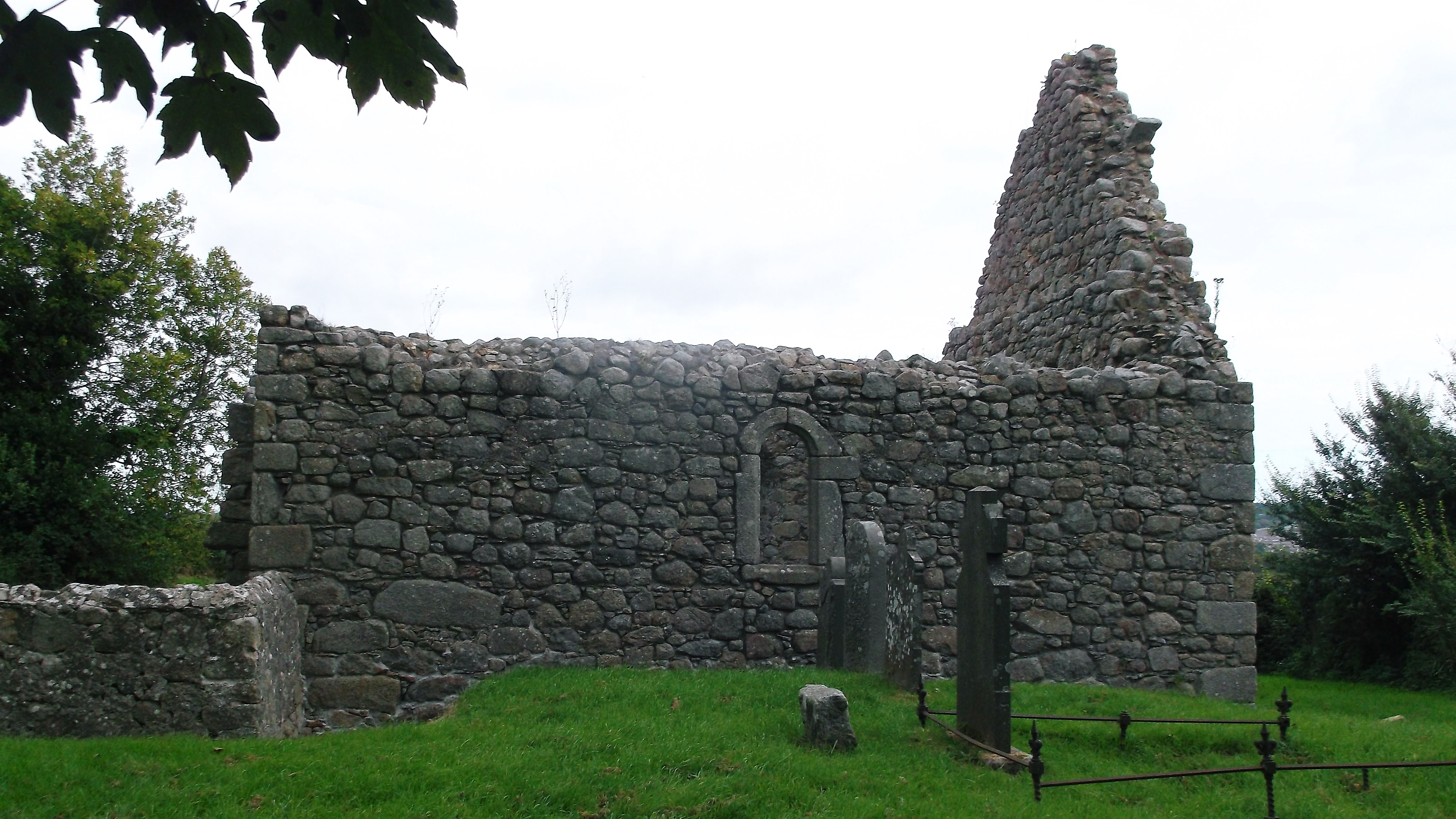 Tully Church Laughanstown and crosses